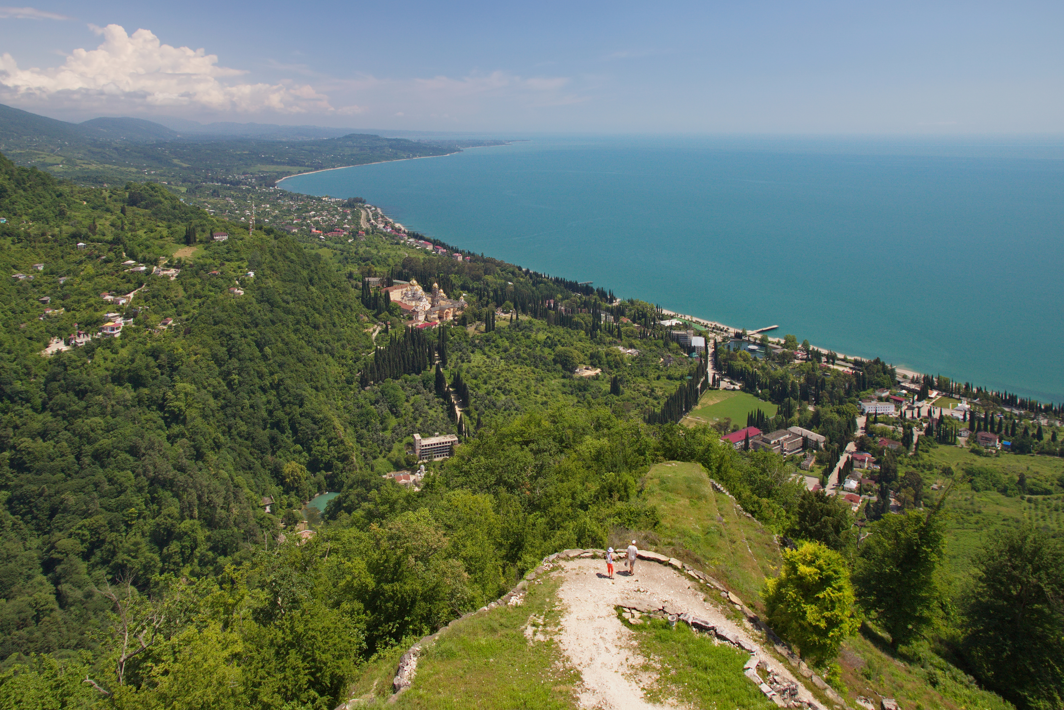 View from Anacopia fortress. New Athos, Gudauta District, Abkhazia.